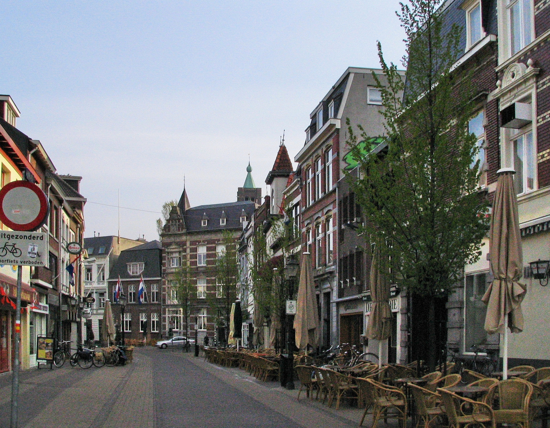 View At The PARADE